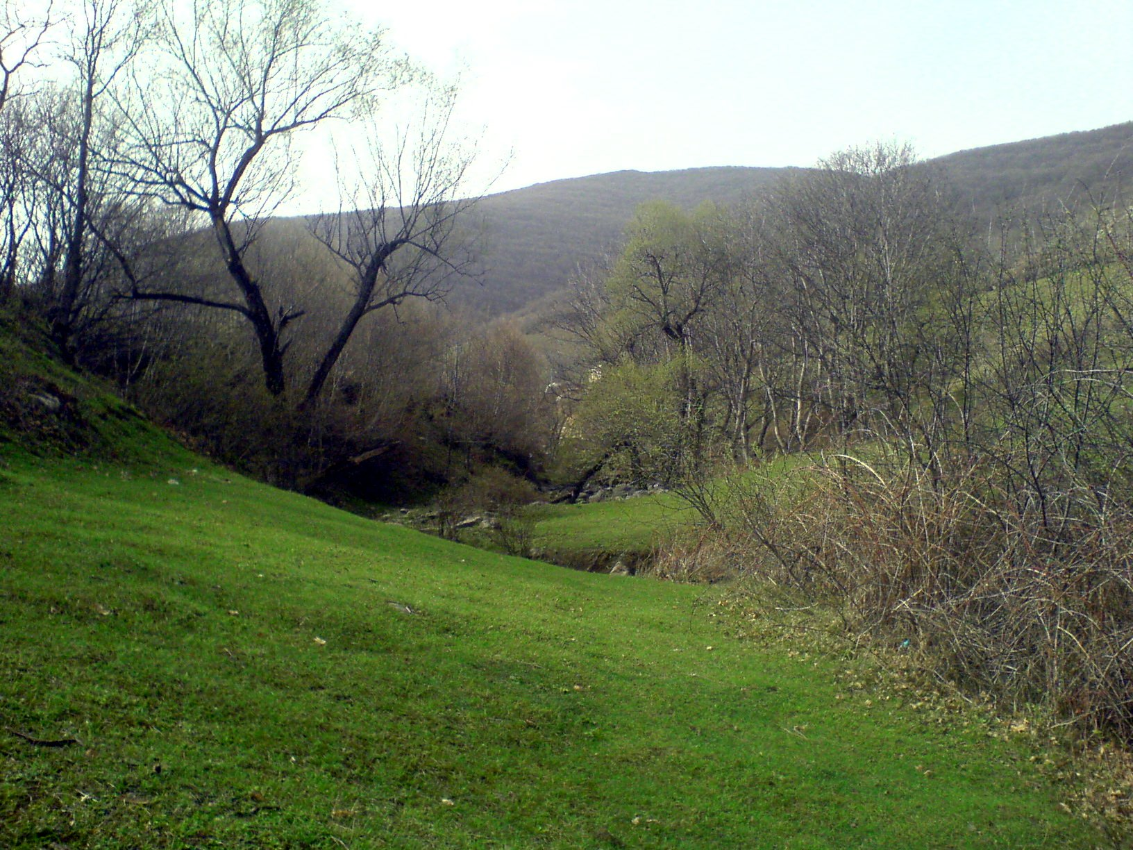 Arasbaran forests, East Azerbaijan, Iran